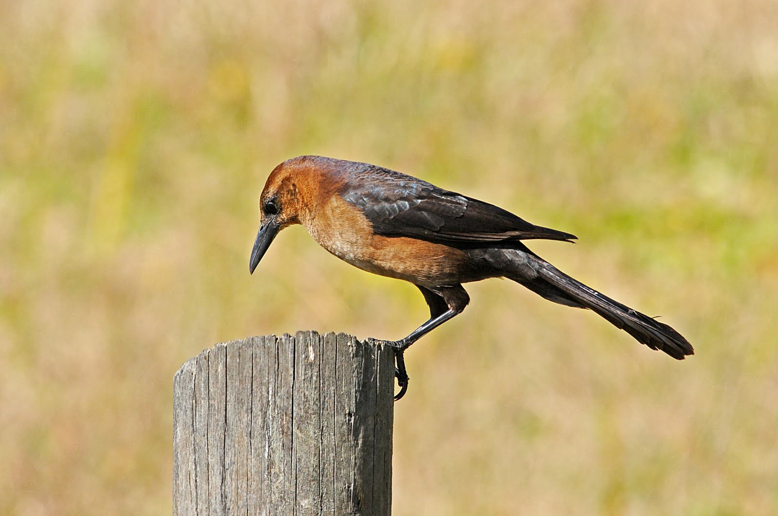 A female Boat-tailed Grackle in Three Lakes Wildlife Management Area, Florida, USA.